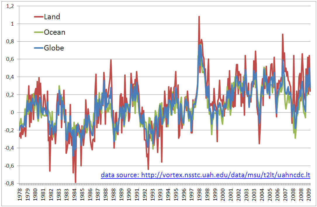 Graphical representation of global montly temperatures anomalies (globe - land - ocean) from Dec 1978 to Dec 2009 based on UAH troposphere data available at